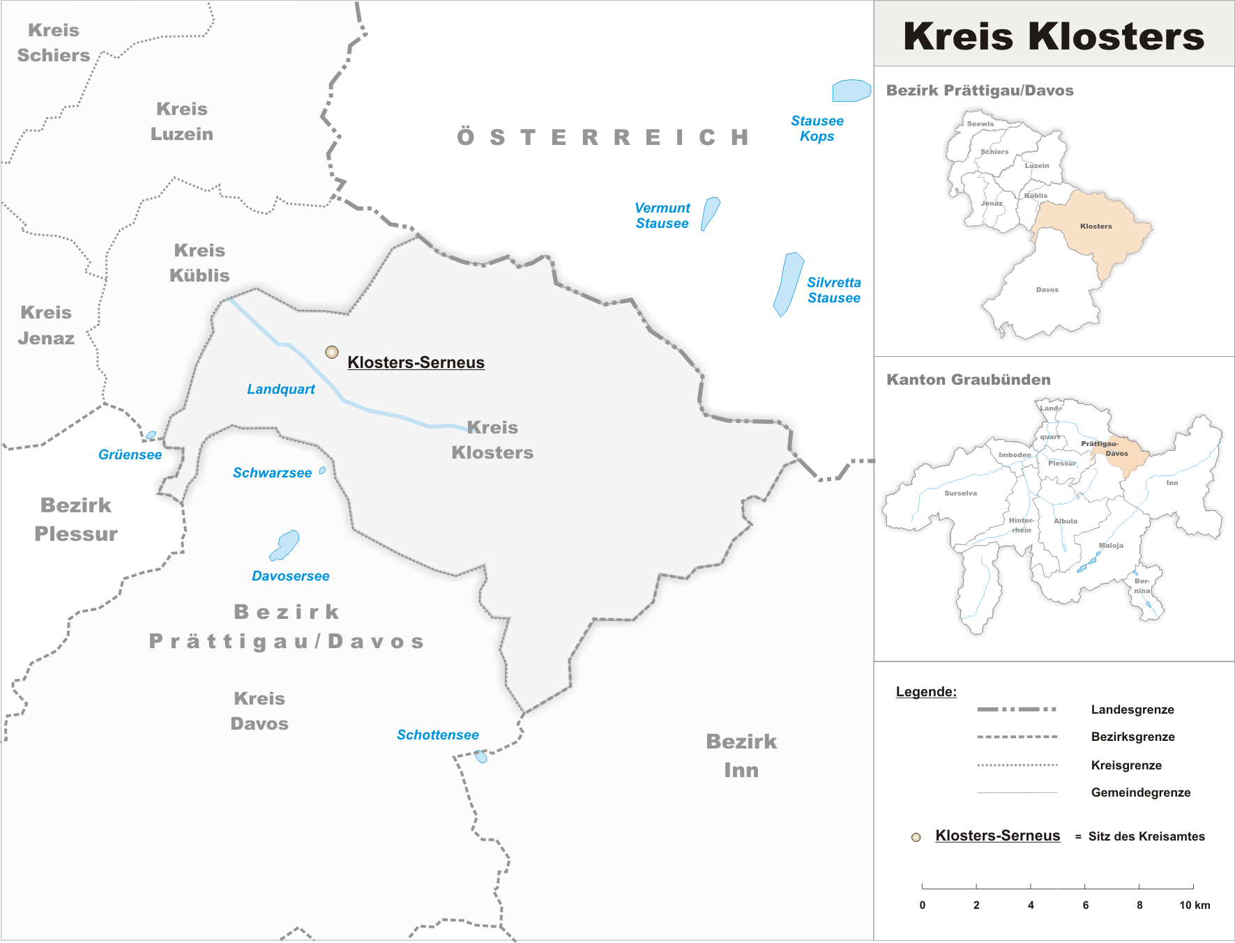 Municipalities in the circle of Klosters